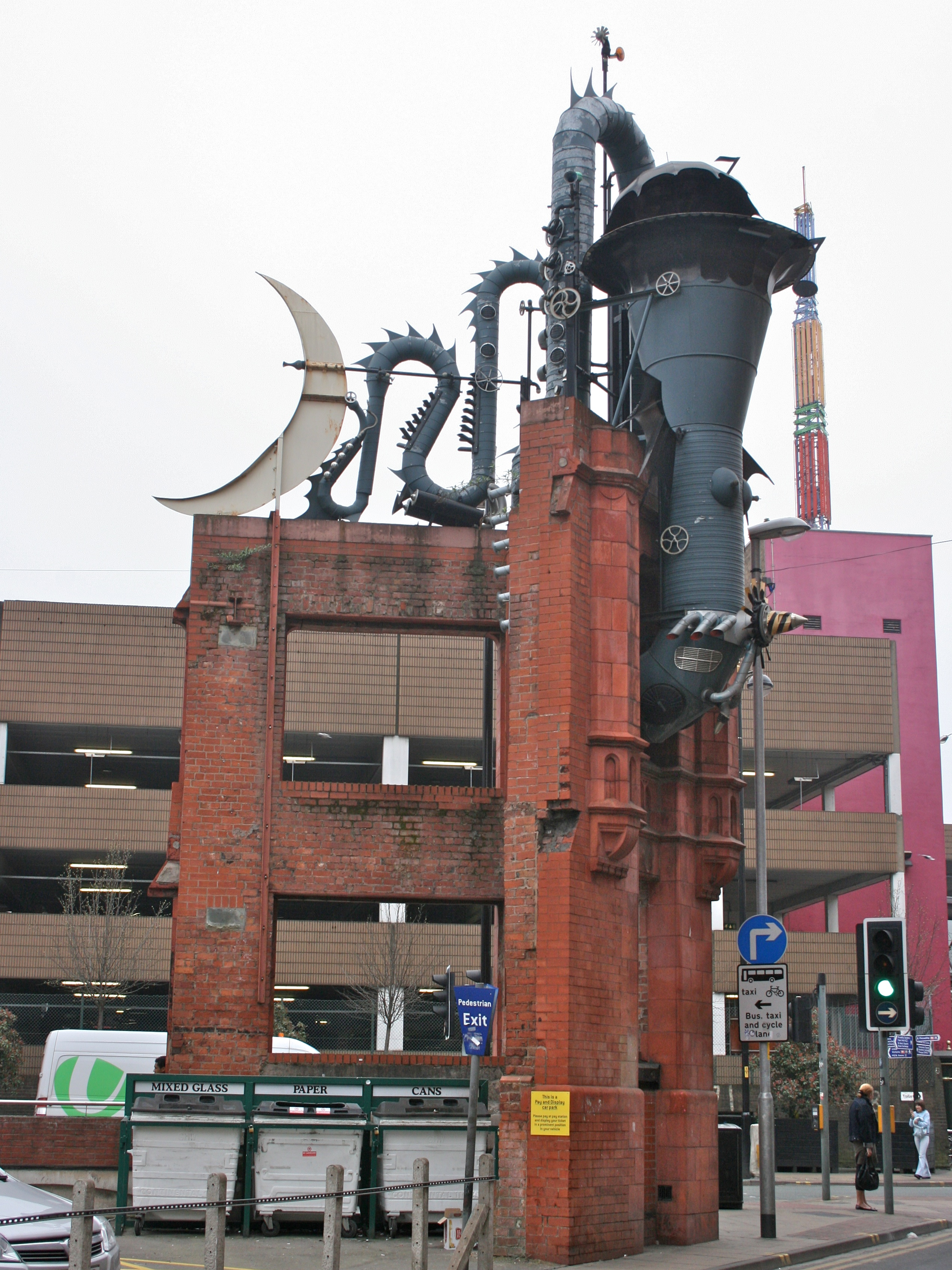 Tib Street Horn. On top of the remains of an old Victorian hat factory, opposite Afflecks Palace, Manchester.